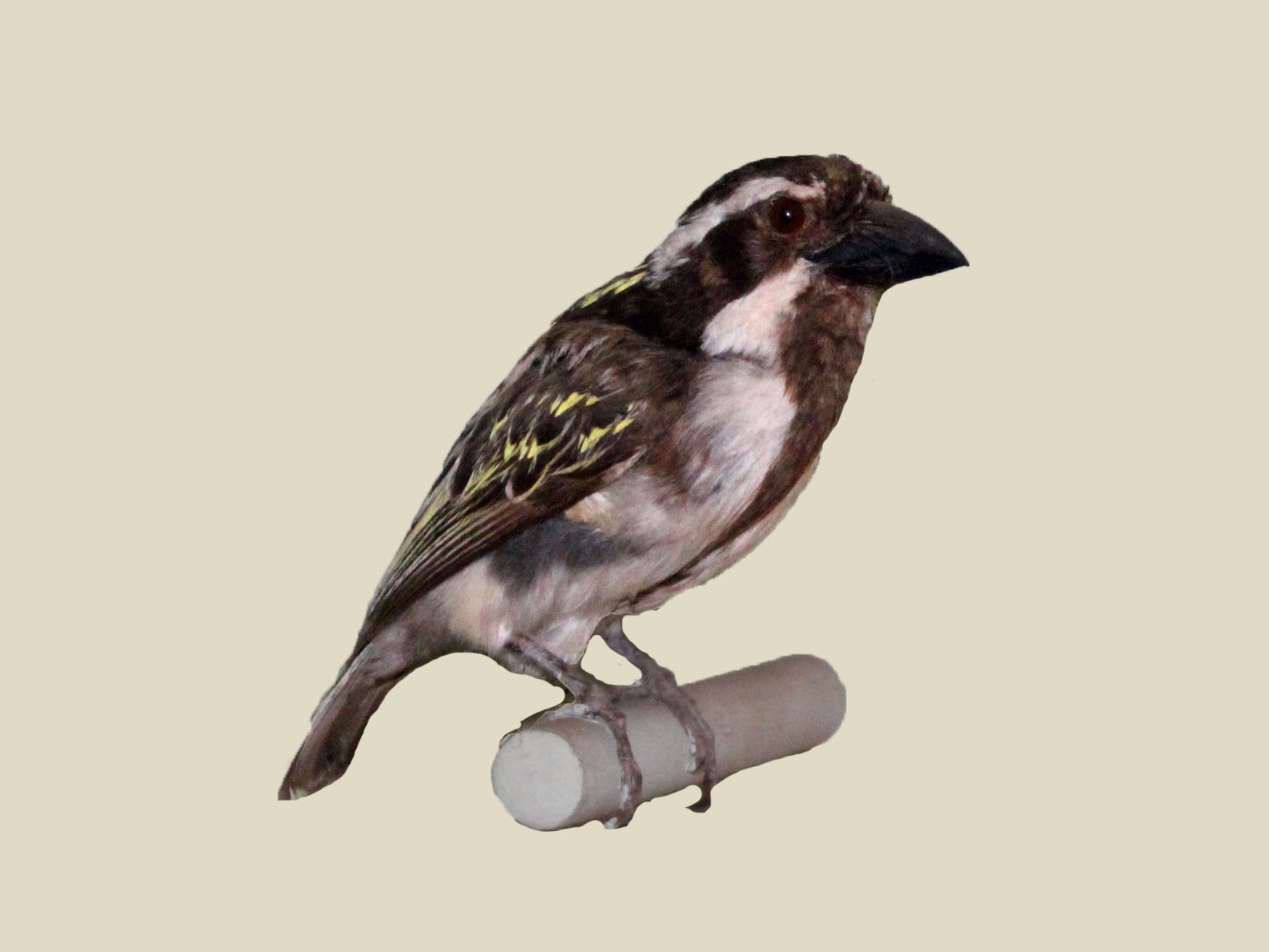 Black-throated Barbet (Tricholaema melanocephala). Photograph of a specimen at Nairobi National Museum in Nairobi, Kenya.